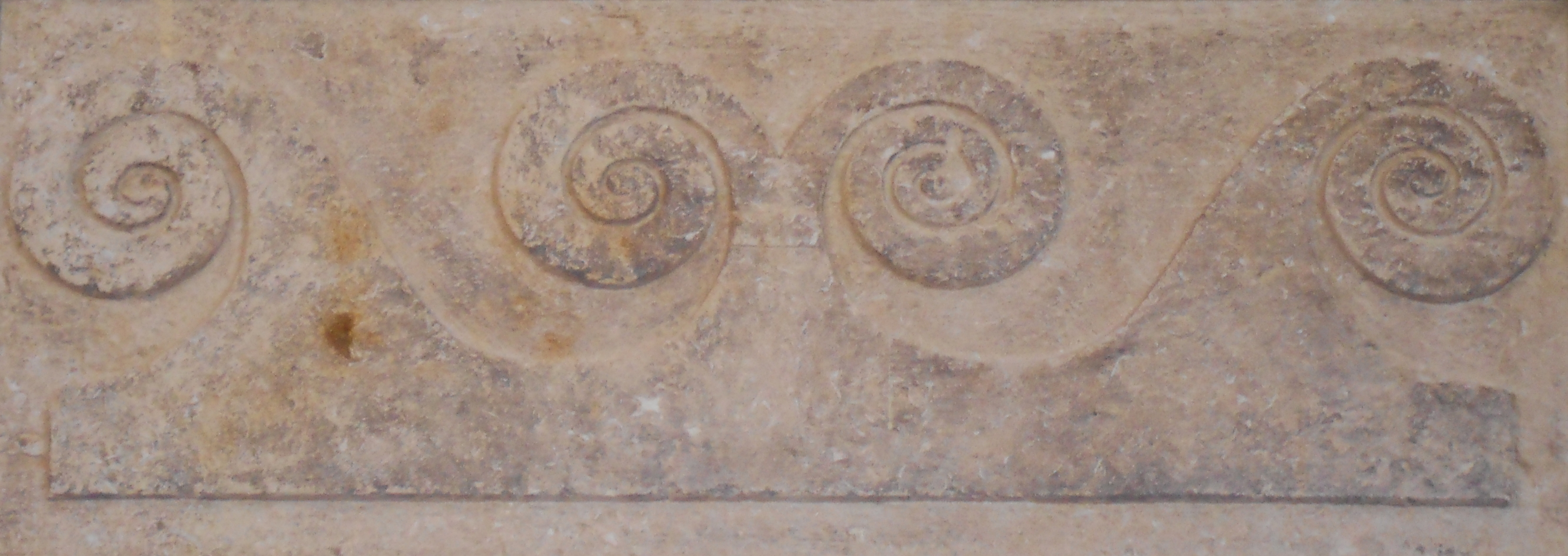 wave decoration in the Venetian palace Roncale